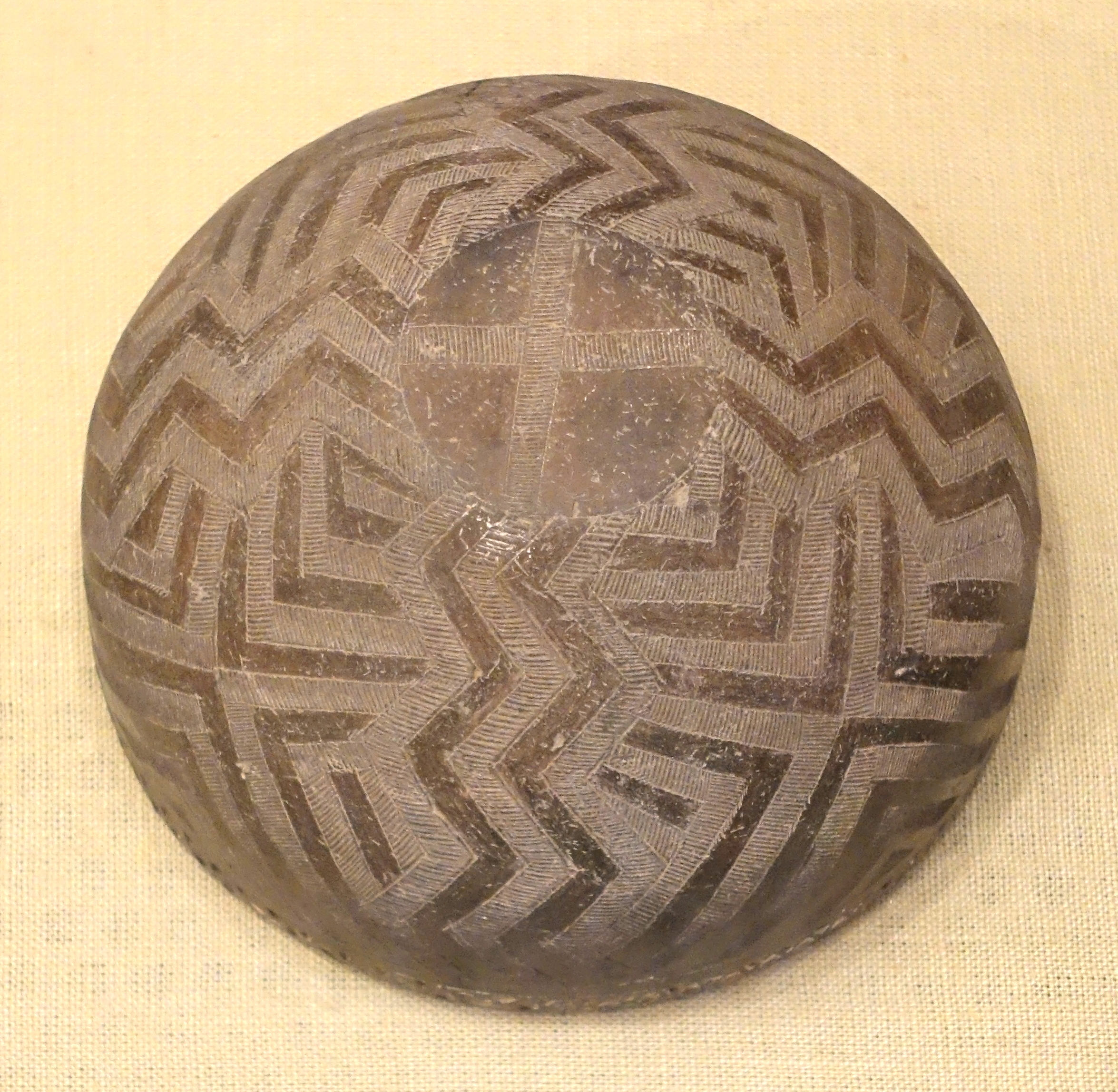 Exhibit in the Oriental Institute Museum, University of Chicago, Chicago, Illinois, USA. This work is old enough so that it is in the public domain.